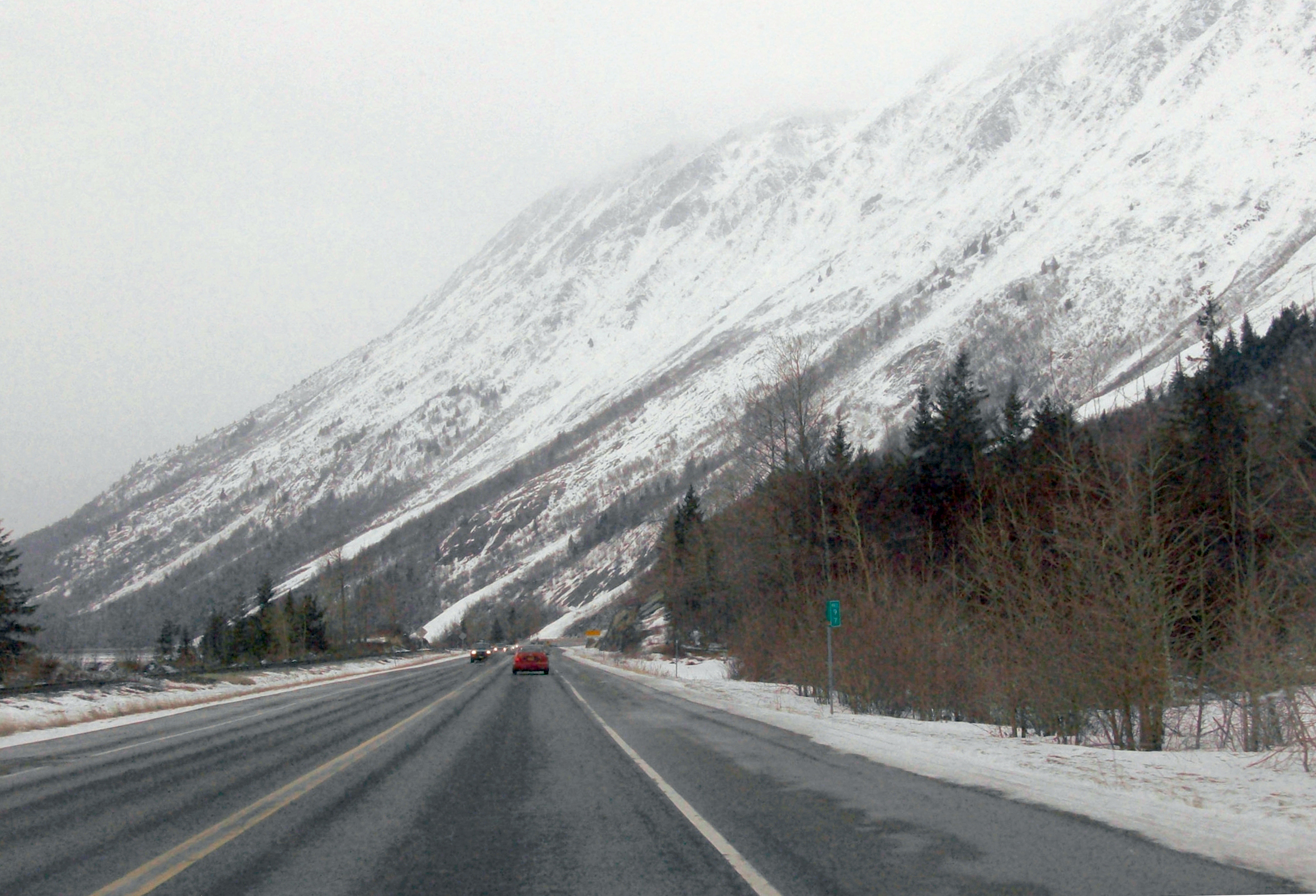 Seward Highway west of Girdwood headed to Anchorage at mile marker 97. This mile marker is 97 miles from the beginning of the Seward Highway in Seward. The mile marker does not represent mileage on Alaska Route 1. (time stamp is incorrect)